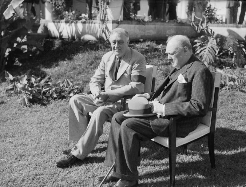 President Roosevelt and Prime Minister Churchill at the Allied Conference in Casablanca, January 1943 President Roosevelt and Prime Minister Churchill at the villa in Casablanca where the conference were held.